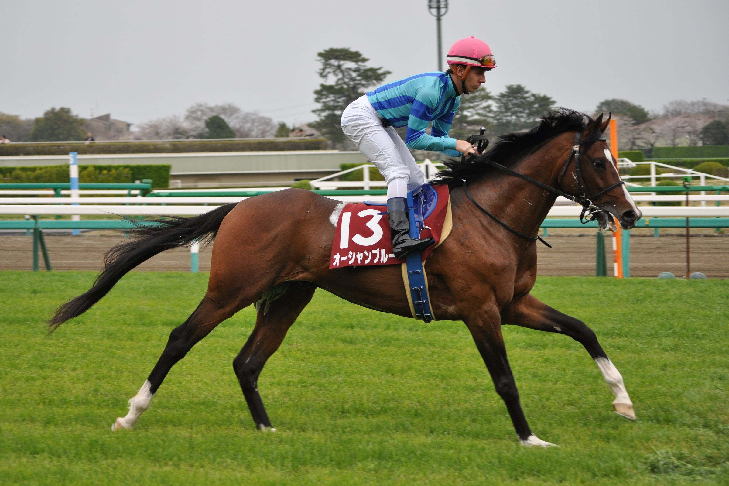 Japanese race horse Ocean Blue at Nakayama racecourse(Funabashi city,Chiba,Japan).